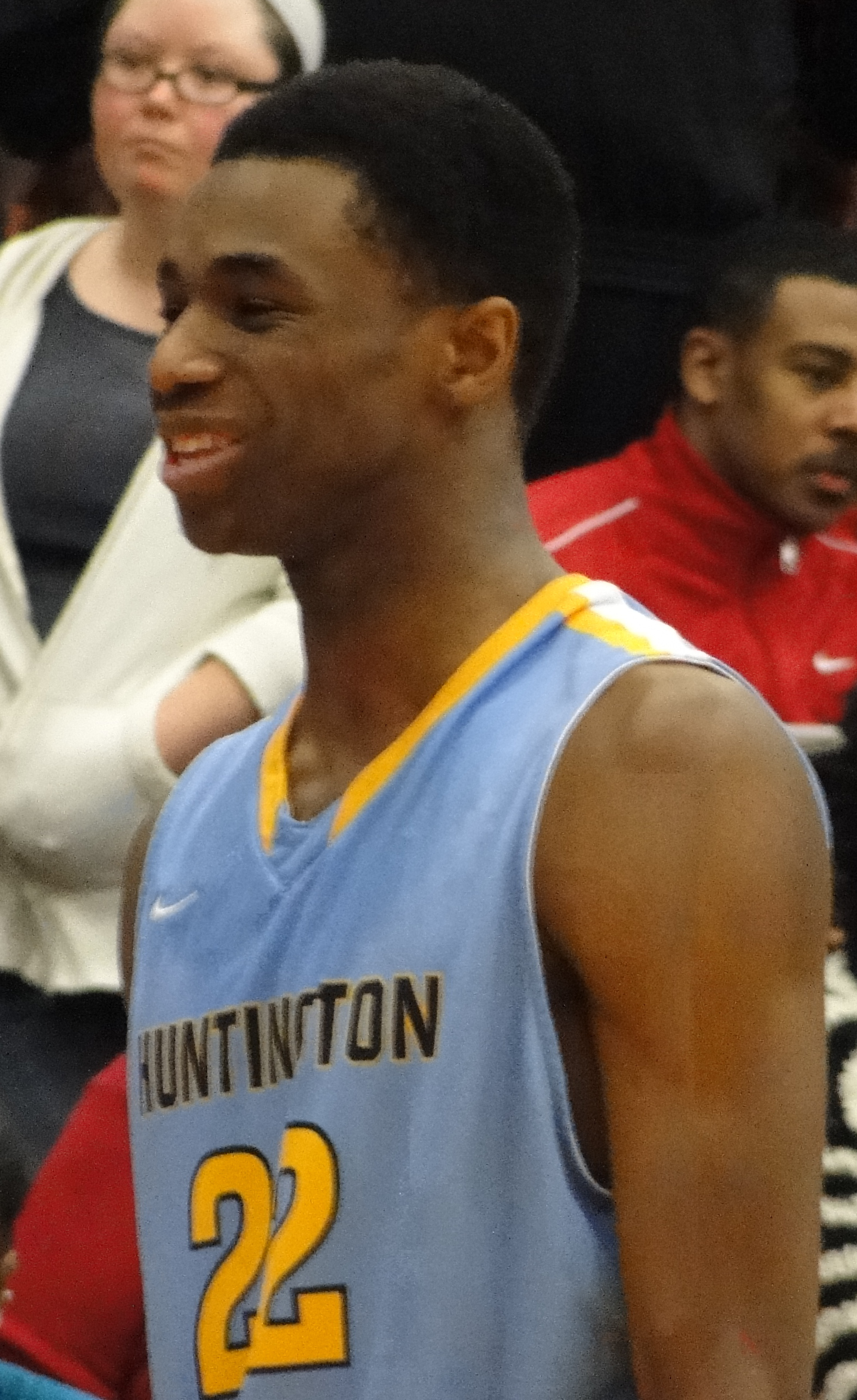 Andrew Wiggins playing for Huntington Prep high school